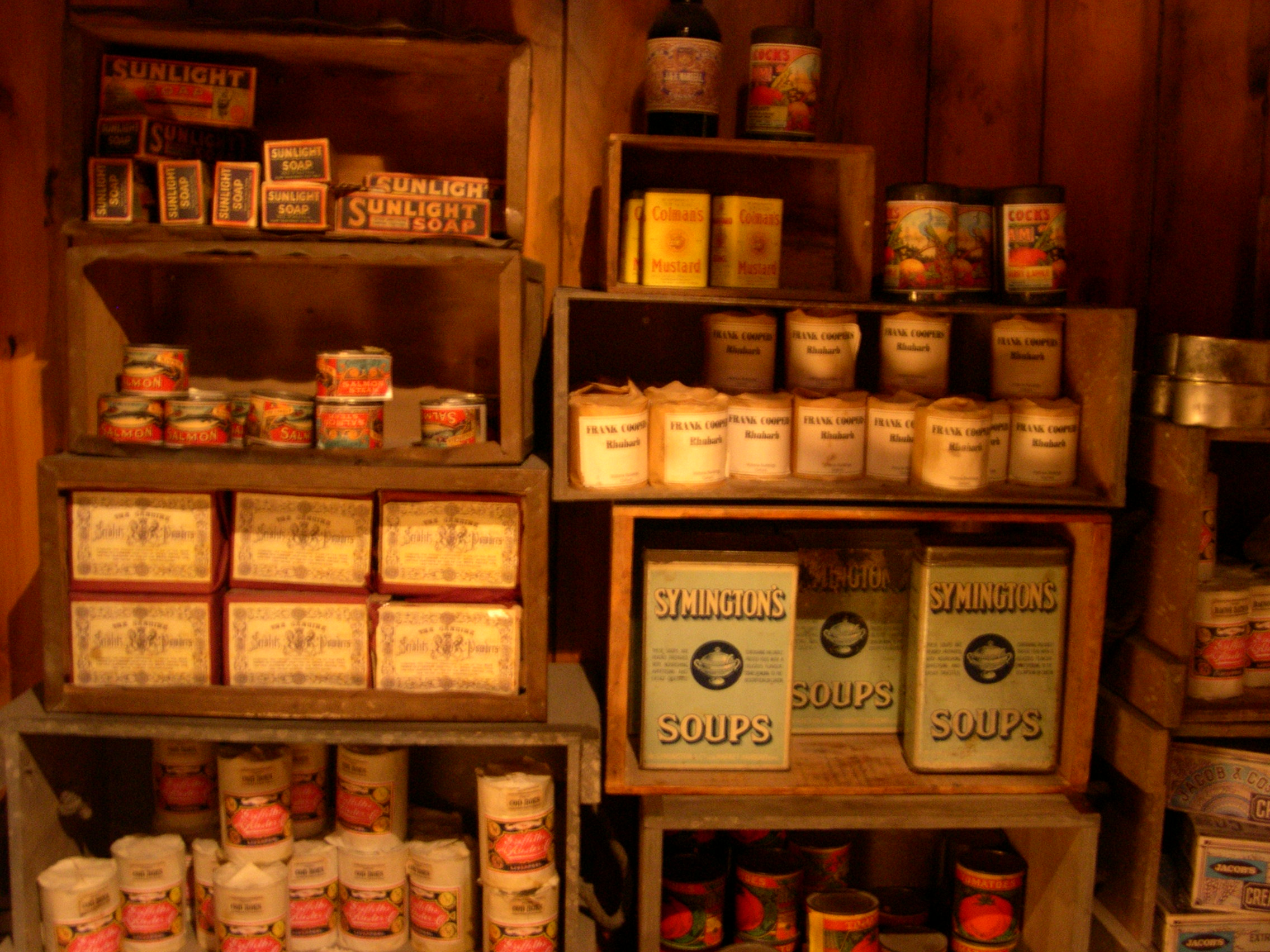 Robert Scott's kitchen at Kelly Tarleton's, Auckland